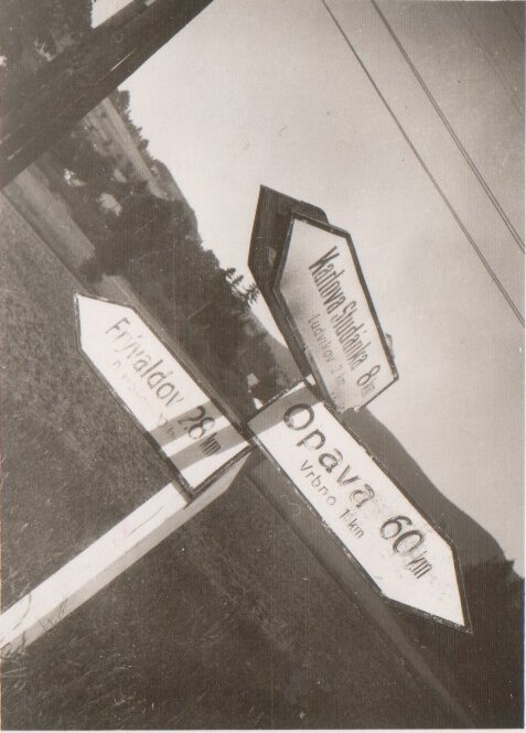 Crossroad behind the bridge on the Bílá Opava river at the western end of Vrbno pod Pradědem before 1947 (in that year, Frývaldov has been renamed to Jeseník).